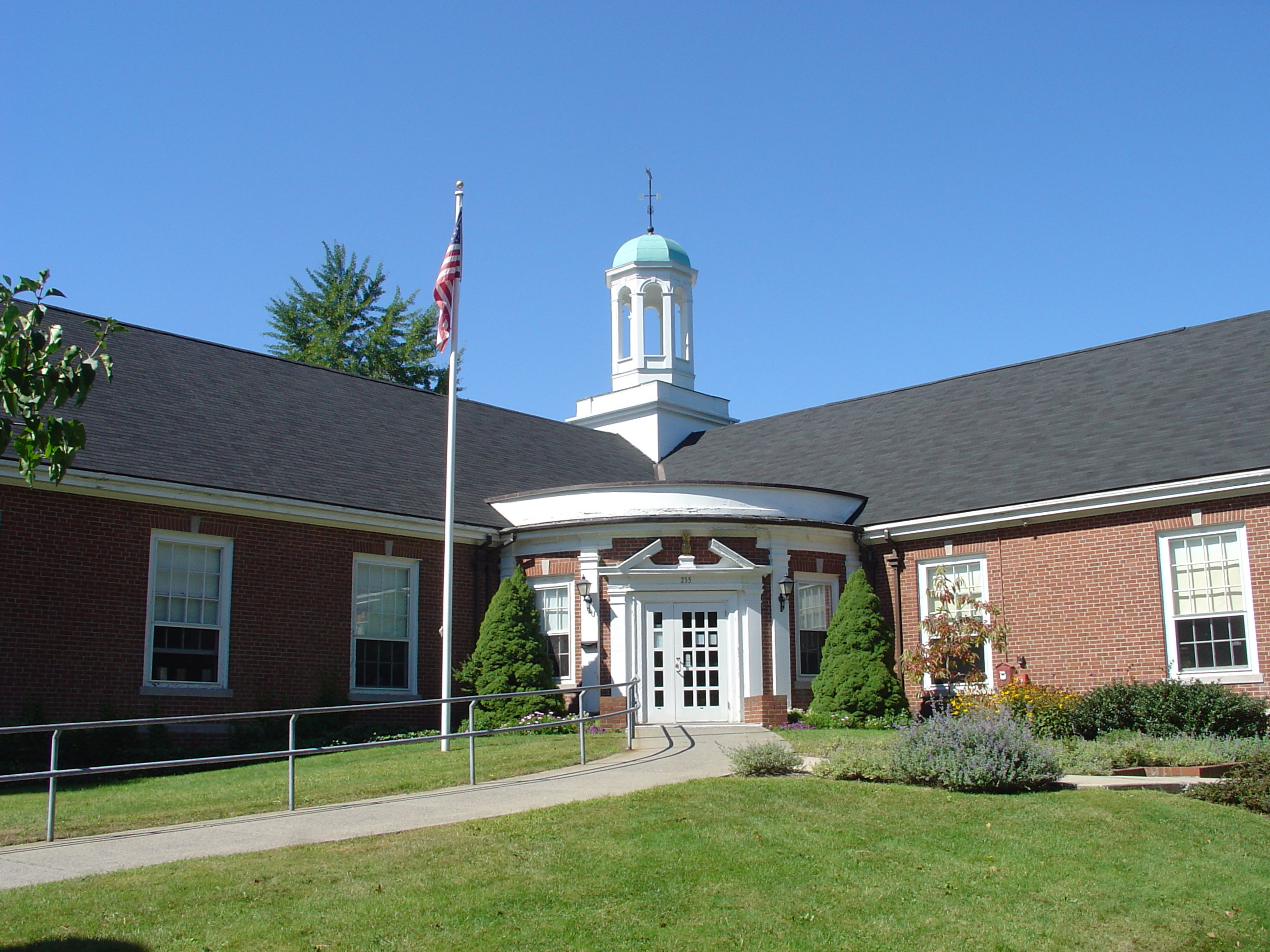 Abbot Public Library Marblehead, Massachusetts